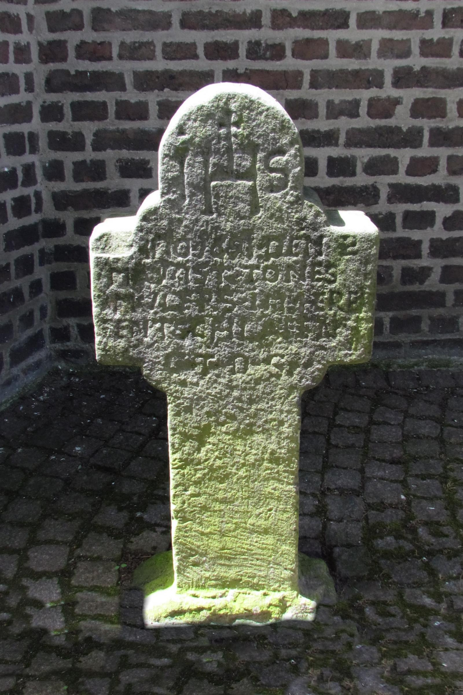 This is a photograph of an architectural monument.It is on the list of cultural monuments of Korschenbroich